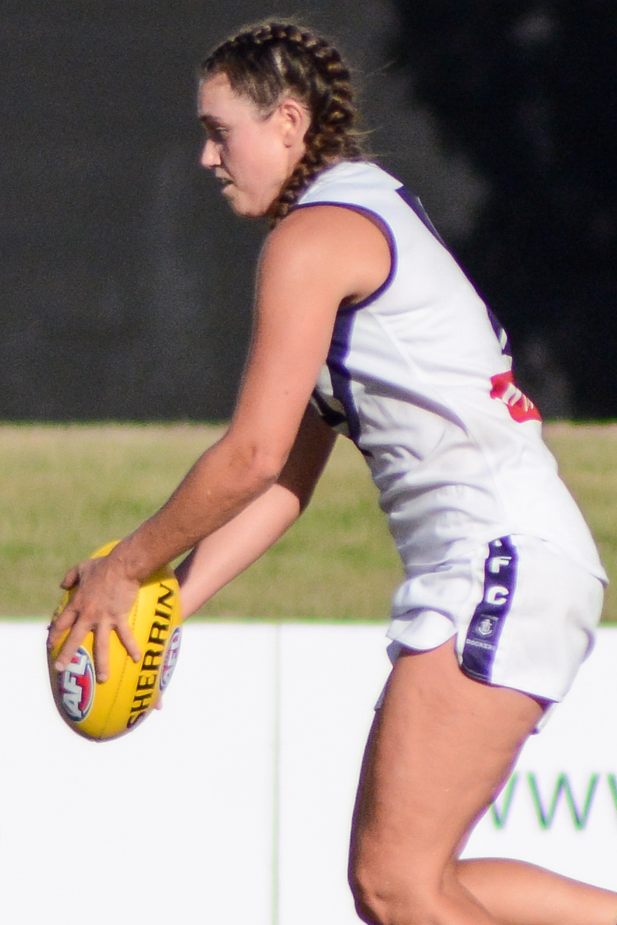 Tarnica Gollisano in January 2017